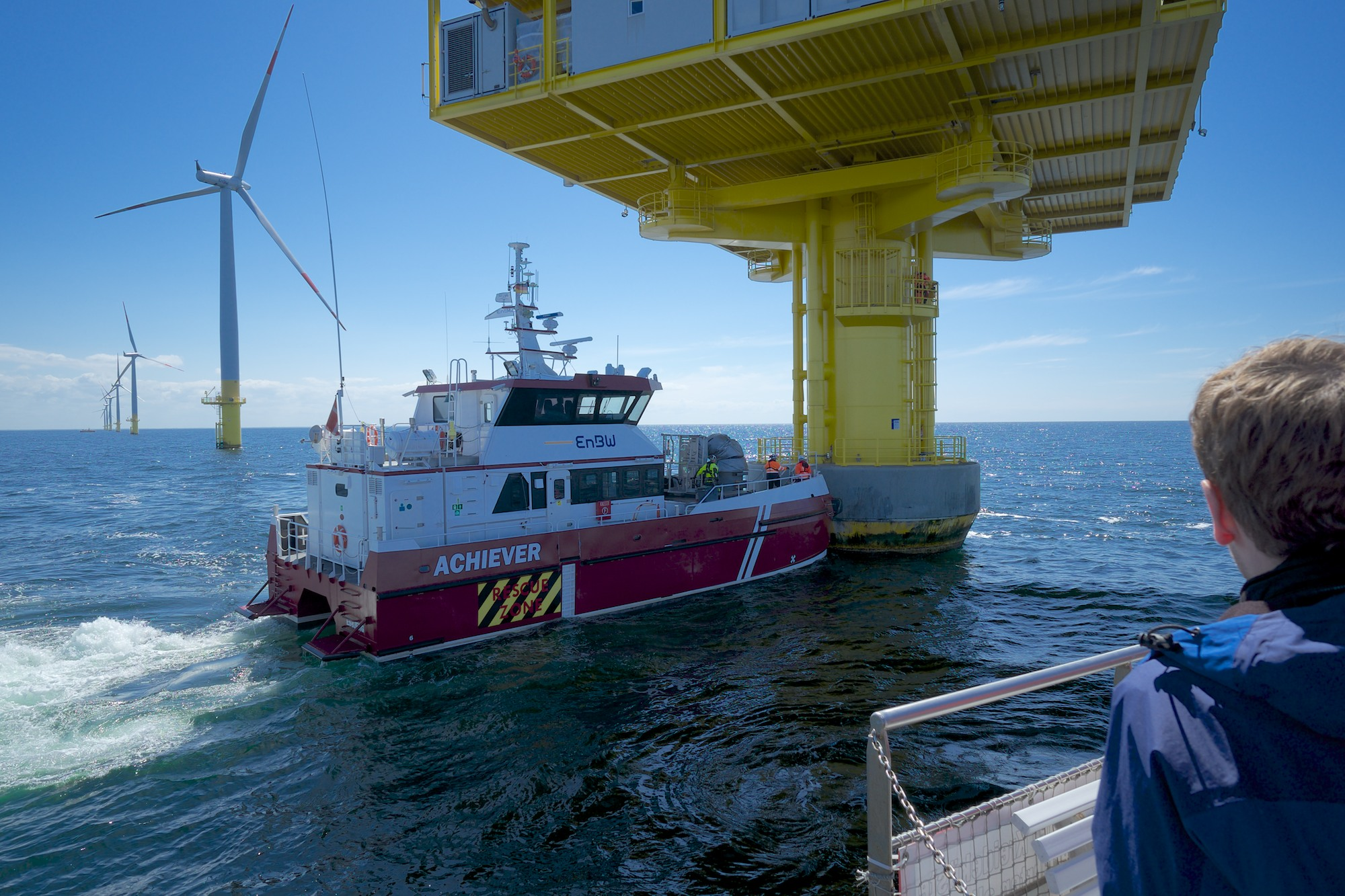 EnBW service ship at the substation platform of Baltic 1 offshore wind farm